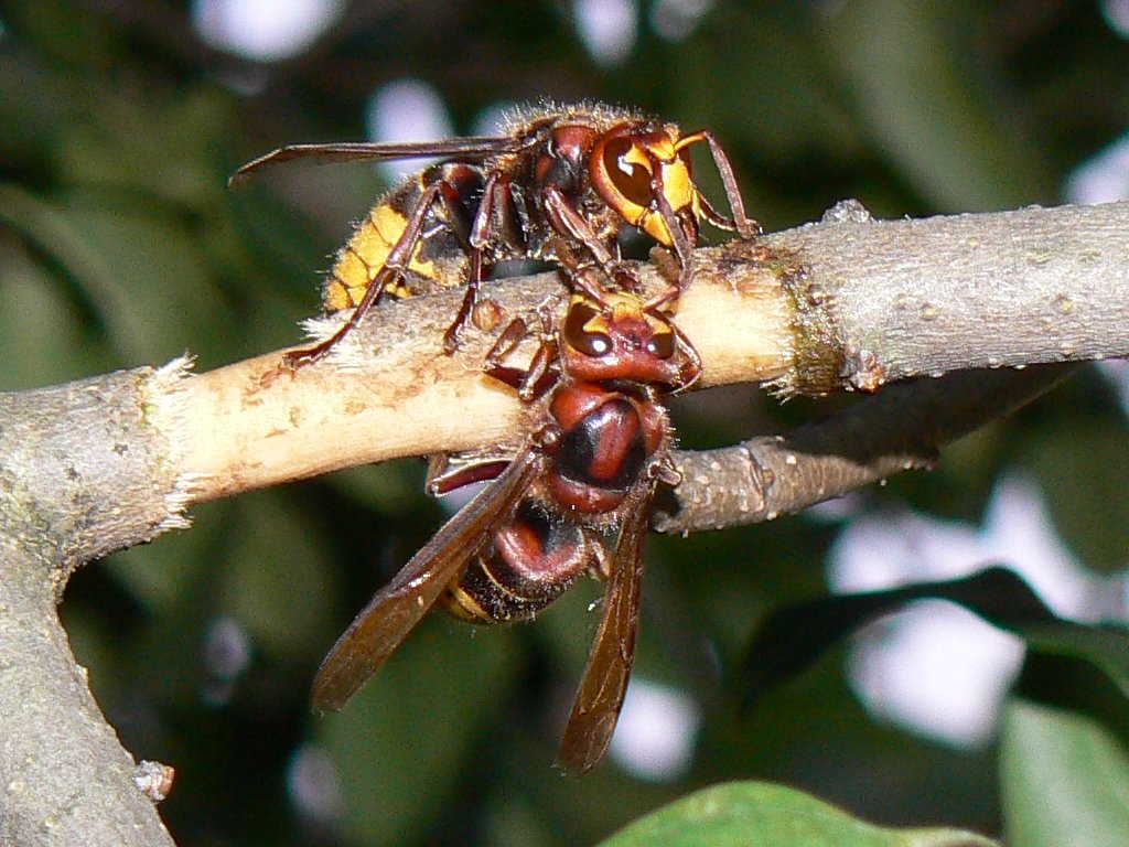 Two european hornets tearing the skin off a lilac branch. The worker on the upper part of the image has just arrived and is being checked by the other worker for identity.